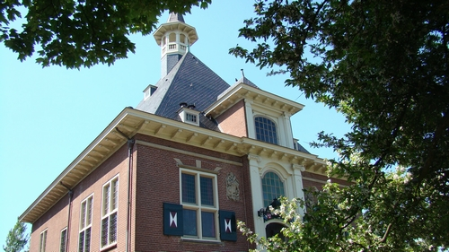 Townhall Halfweg